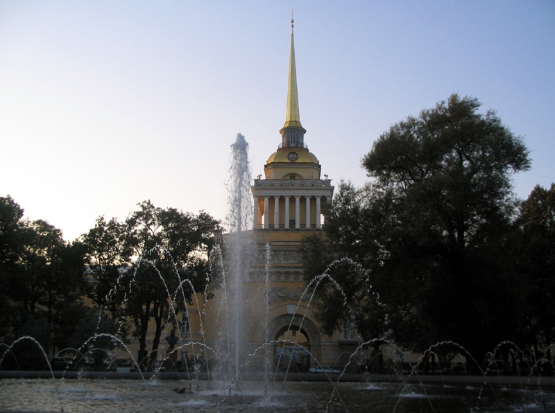 The Admiralty in Saint Petersburg, Russia.